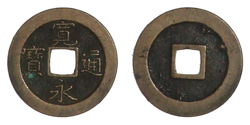 Kanei-tsuho-mimishiro